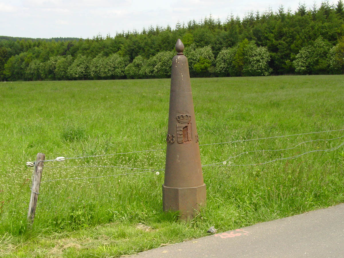 The metal boundary post marking the northernmost point of Luxembourg.